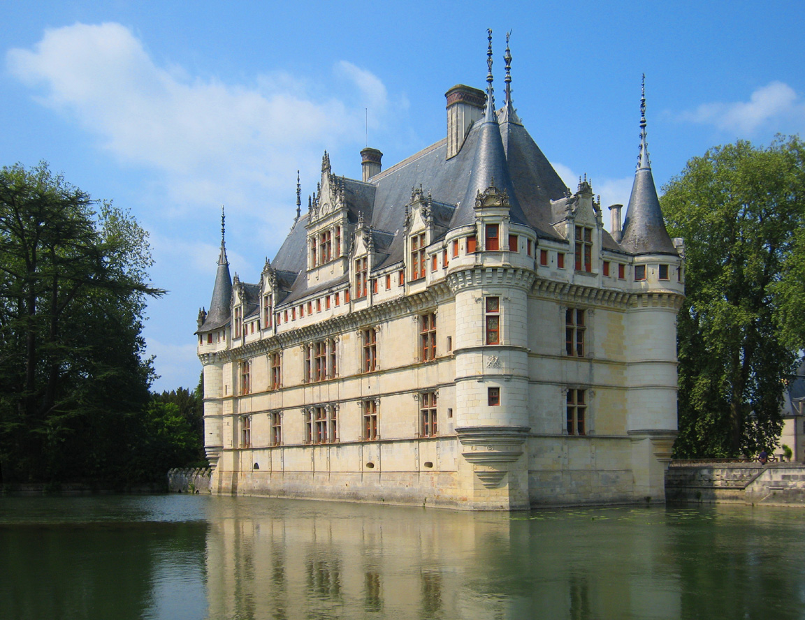 Château d'Azay-le-Rideau, view from the gardens